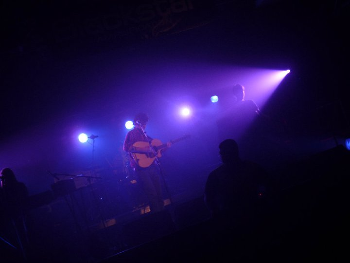 Chasing Owls playing the NME Weekender Festival, Camber Sands, 2010.